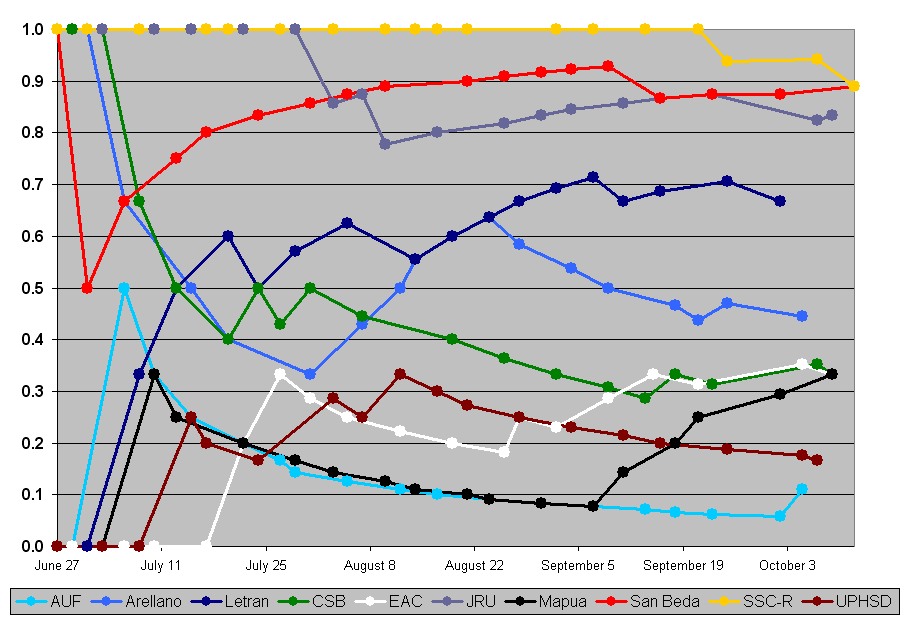 Running team standings for NCAA Season 85 basketball tournaments#Seniors' tournament